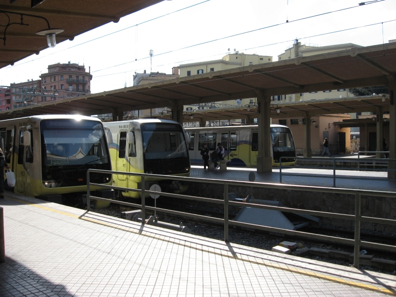 Porta San Paolo Railway Station in Rome.